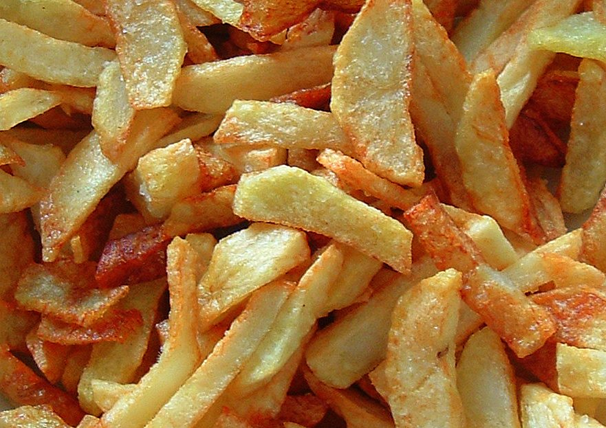 Description EN: Potato chips Description RU: Картофель фри Date: 24/04/2005 Author: Alexander Chupryna License: GFDL